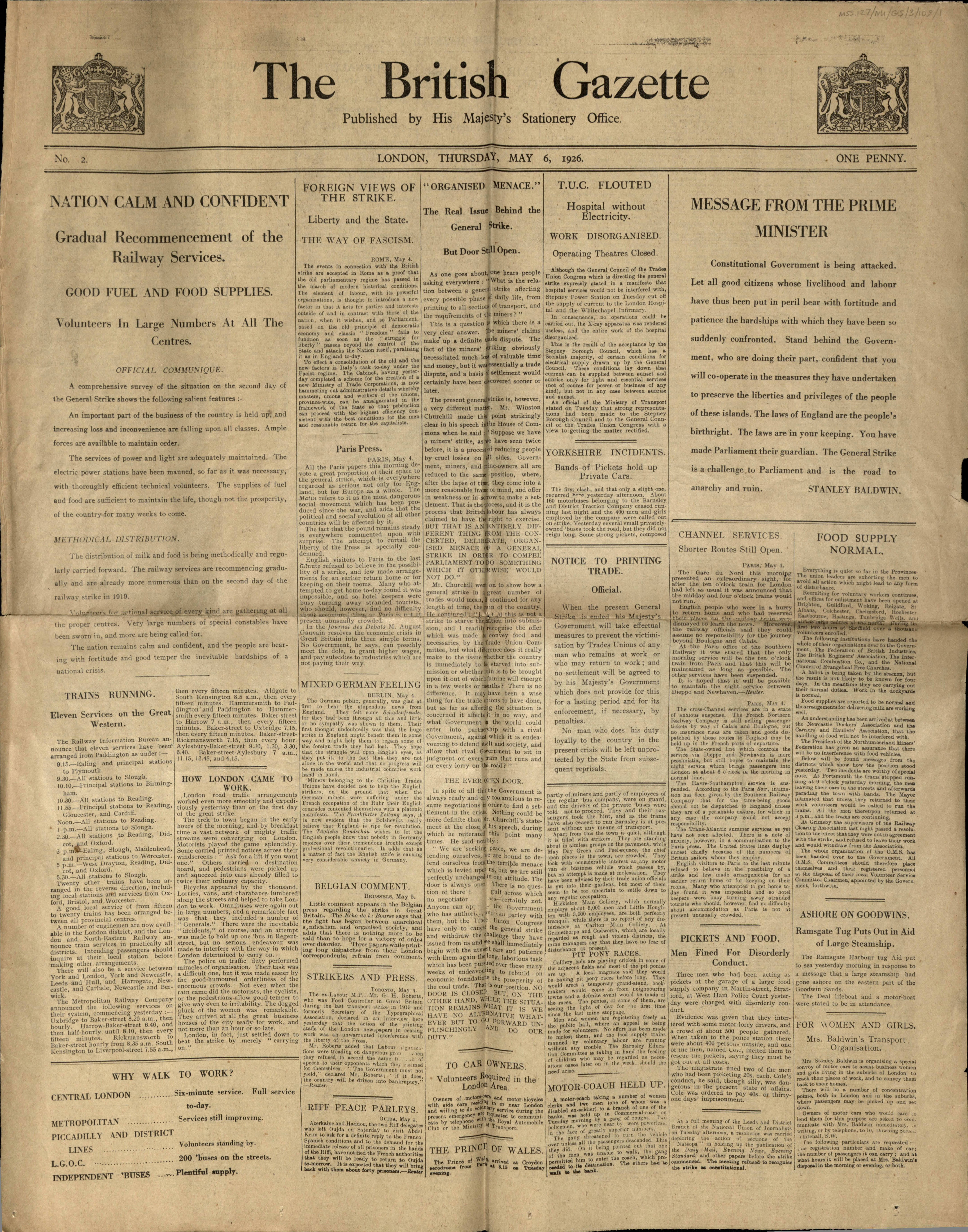 Front page of issue 2 of The British Gazette, a newspaper published by the British Government during the 1926 United Kingdom general strike.